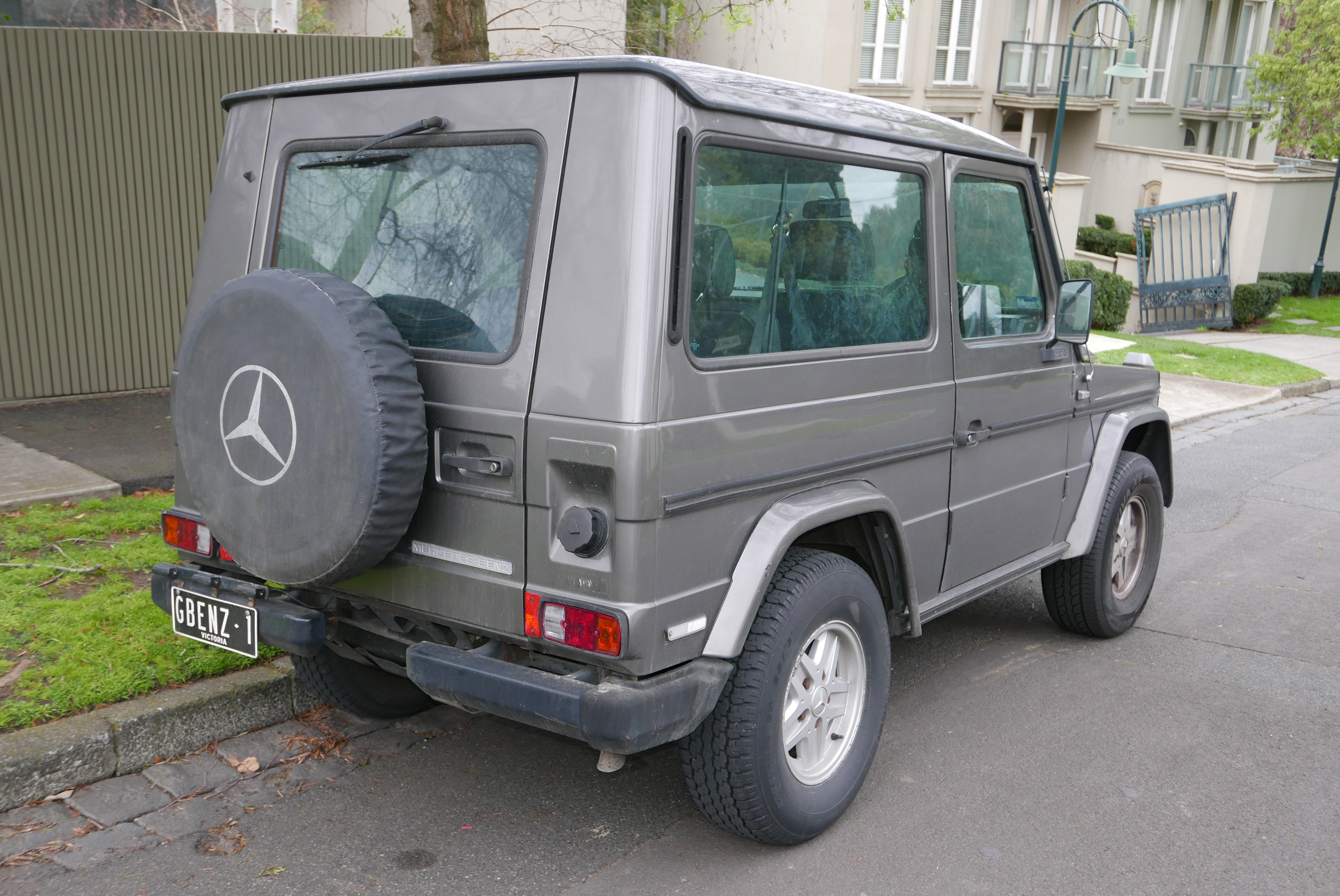 1987 Mercedes-Benz 230 GE (G 460) 3-door wagon. This is a grey import from Japan, complianced for Australia at an unknown date (the vehicle registration information below is incorrect). Photographed in Toorak, Victoria, Australia. Vehicle registration enquiry results Jurisdiction Victoria Registration GBENZ1 Chassis code WDB46023827055763 Engine code 10298712000532 Compliance date 1900-01 Year of manufacture 1987